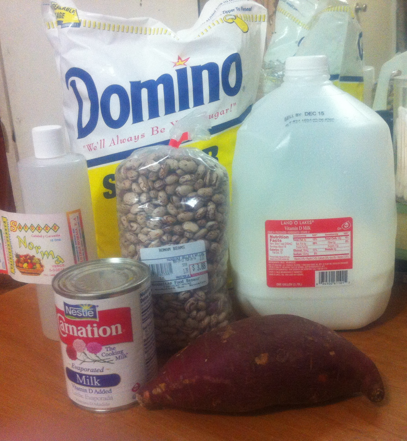 Ingredients to make Habichuela con dulce